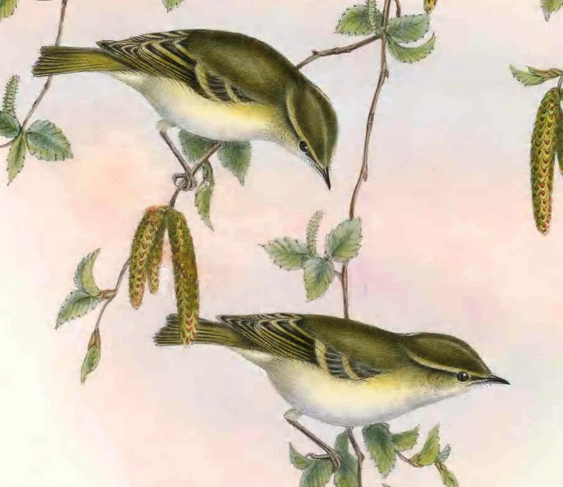 Phylloscopus inornatus. John Gould